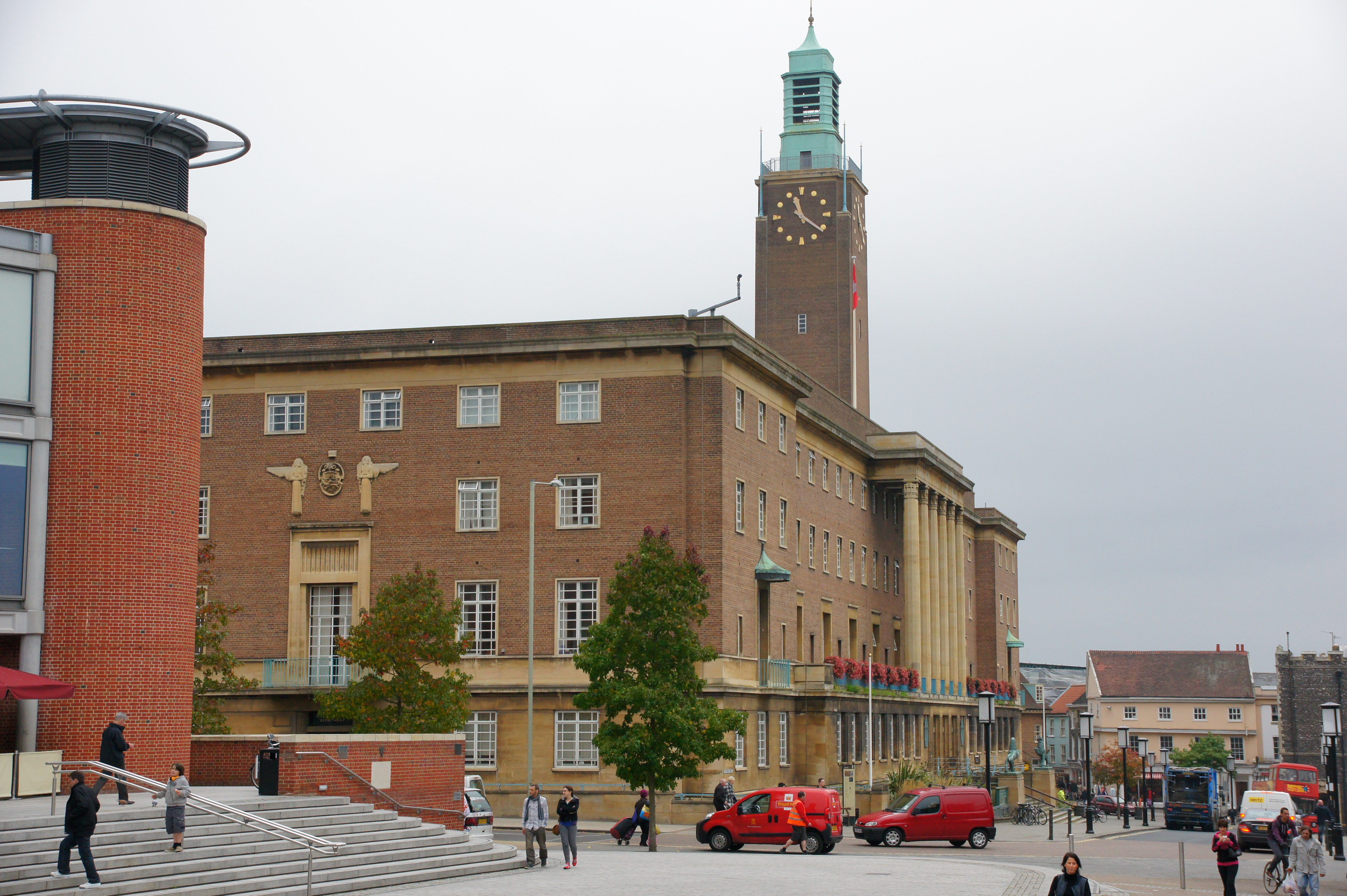 Norwich City Hall